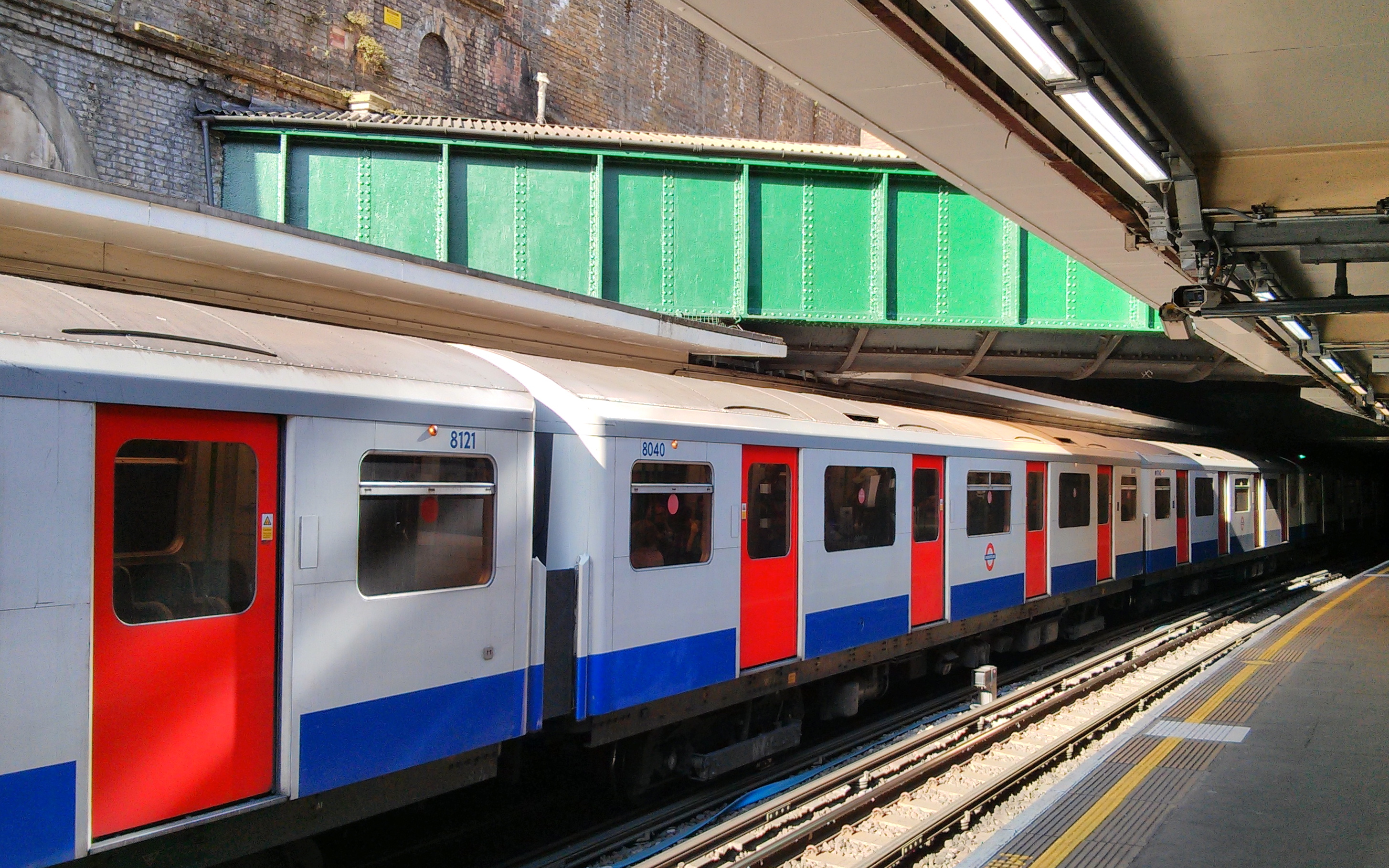 Sloan Square Tube Station London with Westbourne River aqueduct